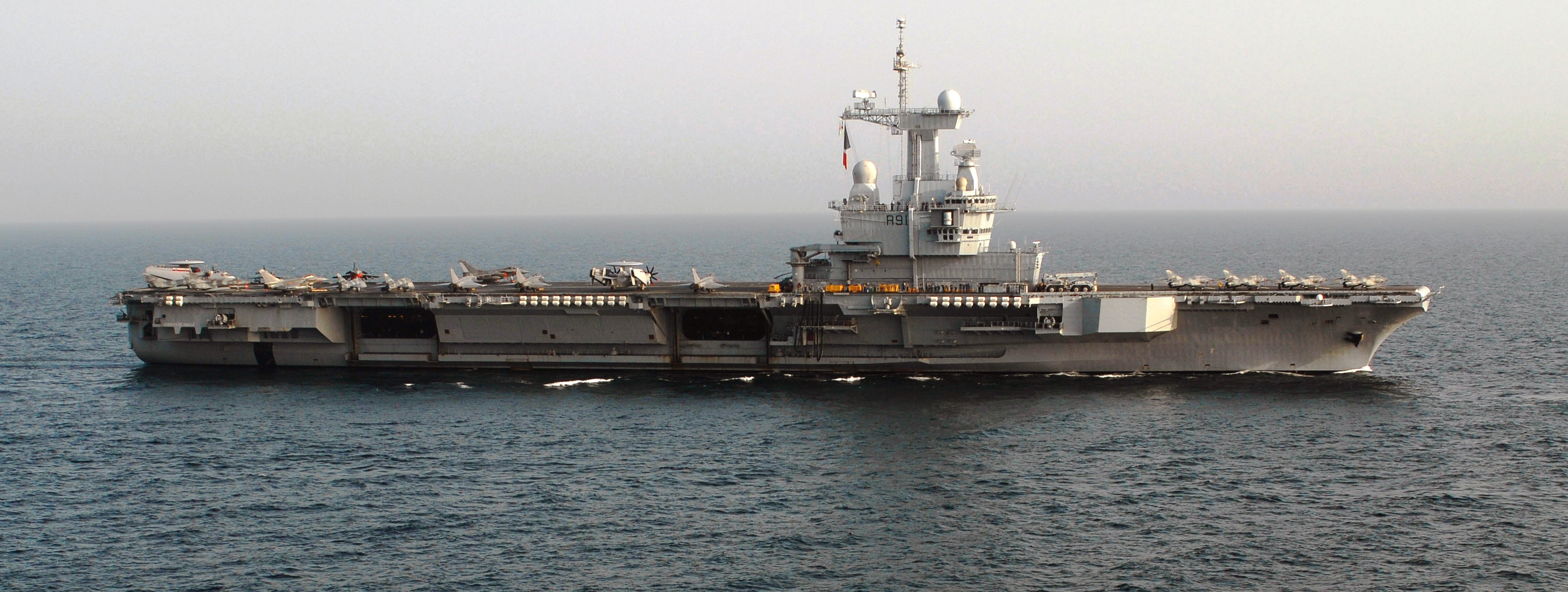 The French nuclear-powered aircraft carrier FNS Charles de Gaulle (R91).